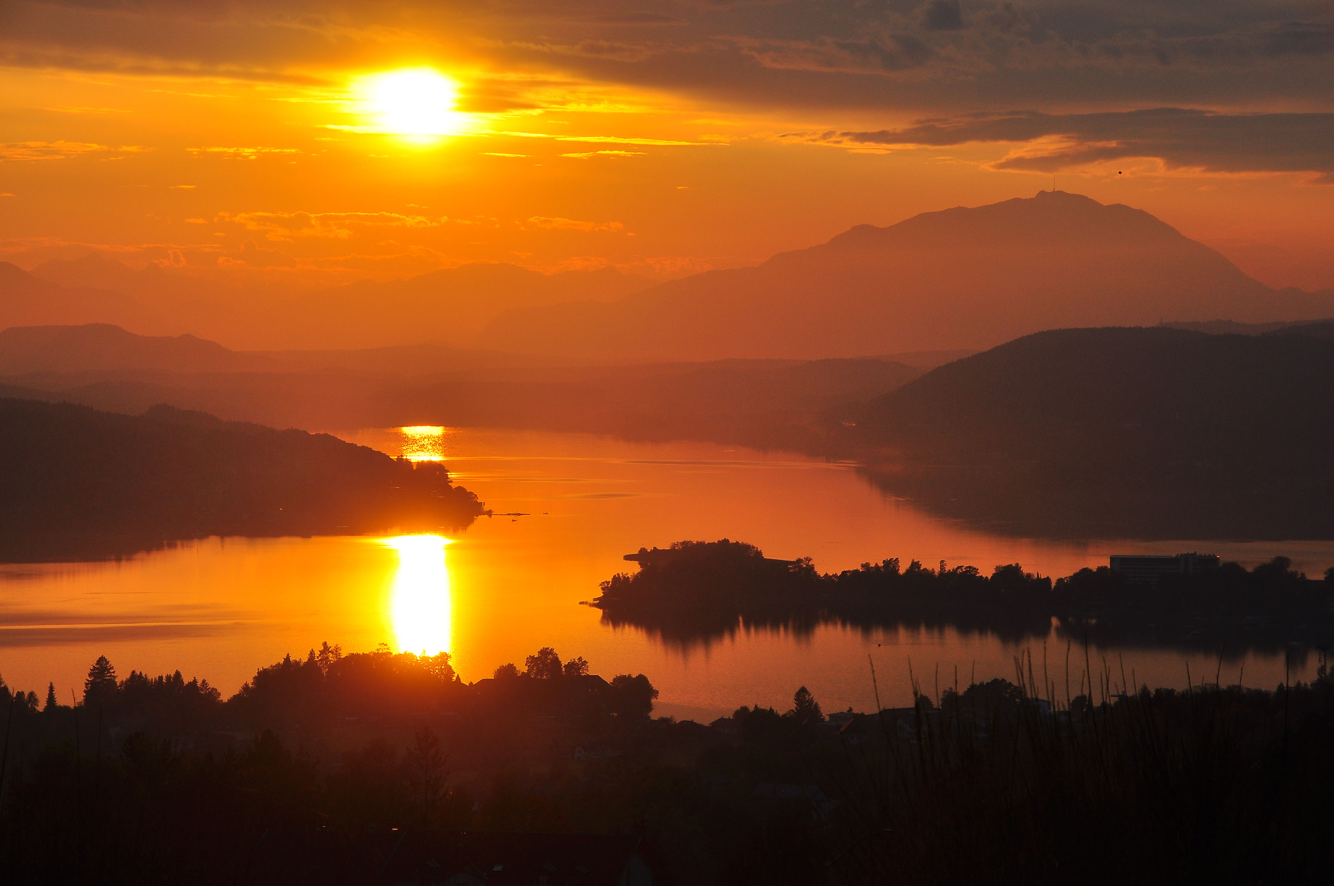 View at the western part of the Lake Woerth from the Pirker Kogel on the Lake Woerth with the peninsula, municipality Poertschach on the Lake Woerth, district Klagenfurt Land, Carinthia, Austria, EU